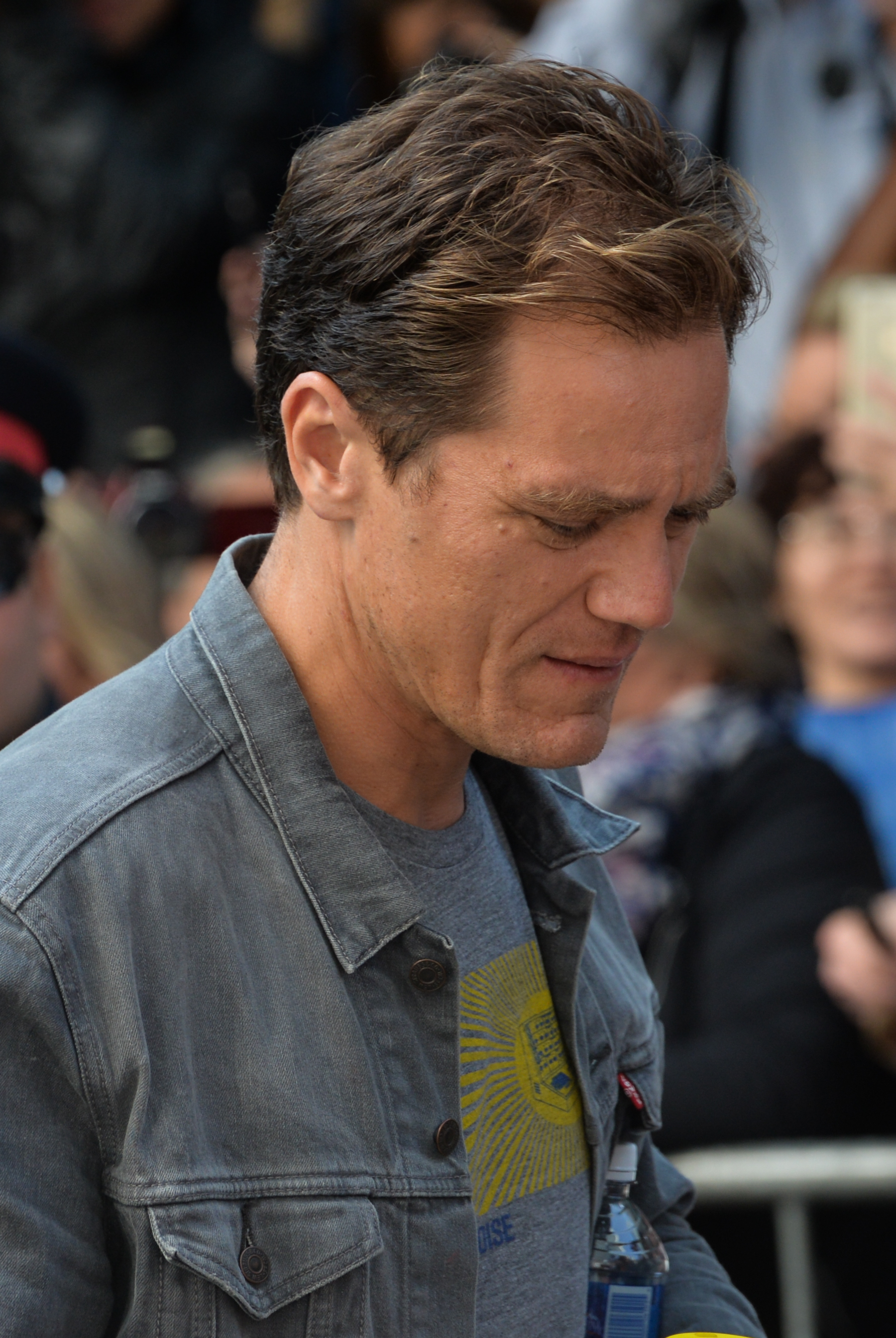 TIFF 2017 Michael Shannon